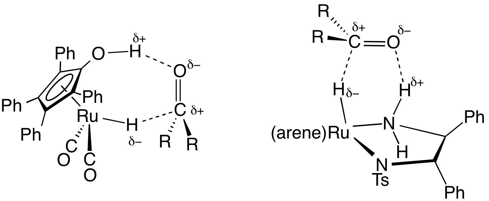 two intermediates in TM-TH catalysis